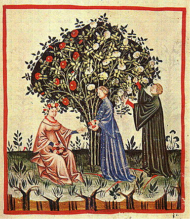 Roses (Roxe) Nature: Cold in the first degree, dry in the third (others in the second). Optimum: The fresh ones from Suri and Persia. Usefulness: Good for inflamed brains. Dangers: In some persons they cause a feeling of heaviness and constriction, or blockage of the sense of smell. Neutralization of the Dangers: With camphor, and at other times with the crocus. Effects: They are good for warm temperaments, for the young, in warm seasons, and in warm regions. From the Tacuinum of Vienna